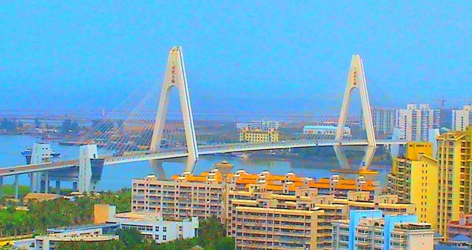 Haikou Century Bridge joining two parts of Haikou city. This is a view from the south.